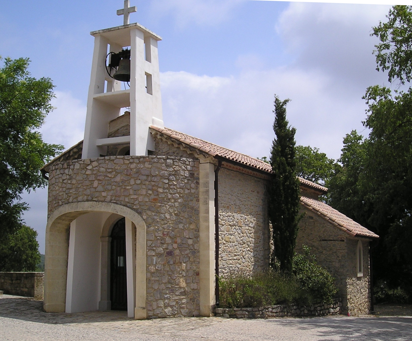 In Hérault, France, the church of Cazevieille (supposed beginning of the 19th century, see reference in French below).